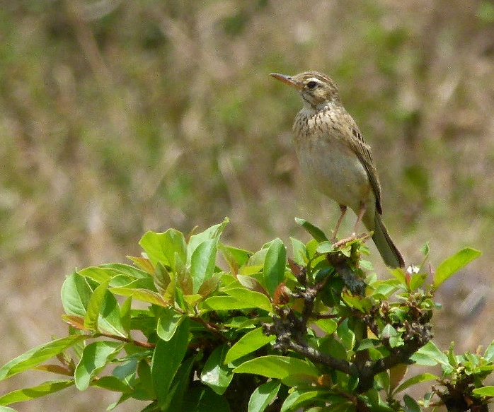 Anthus similis similis, Gopalswamy Betta, India